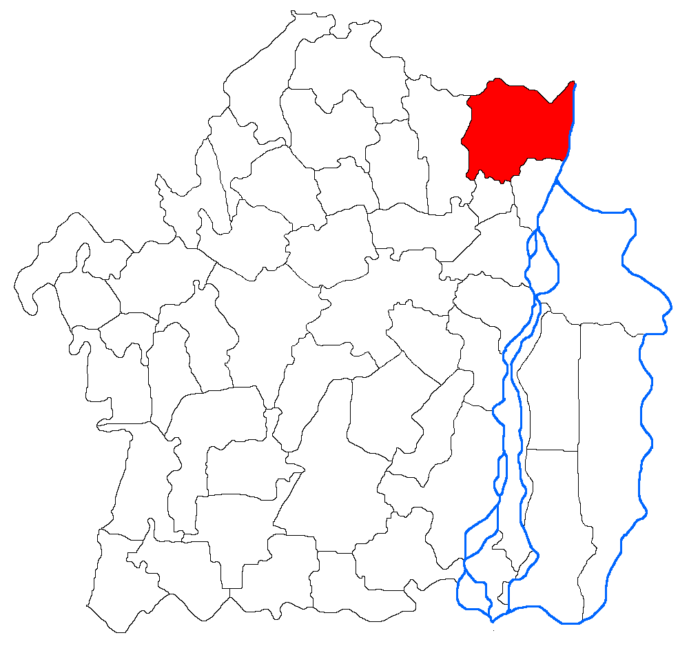 Limits of the commune of Vădeni in Brăila County, Romania